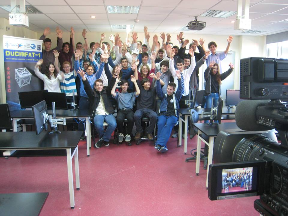 The students who built Duchifat 1 at the Space lab of the Hertzliya science center